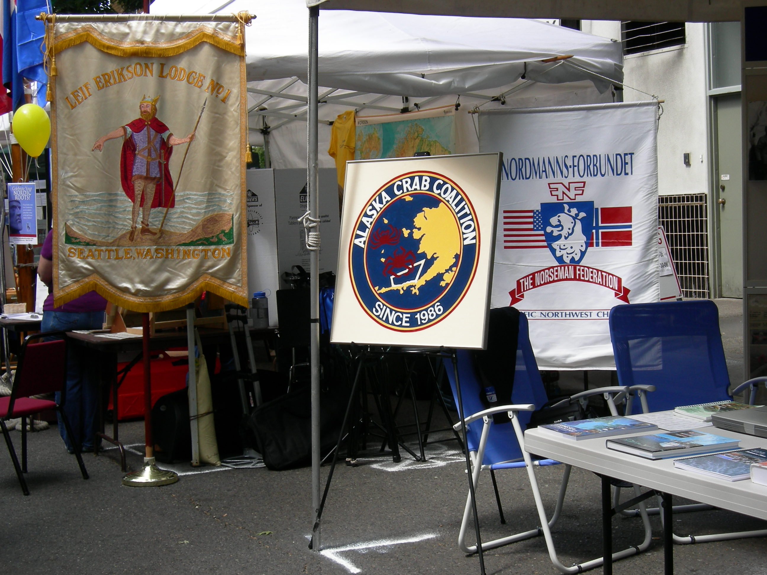 The the Ballard Seafood Festival, Ballard, Seattle, Washington